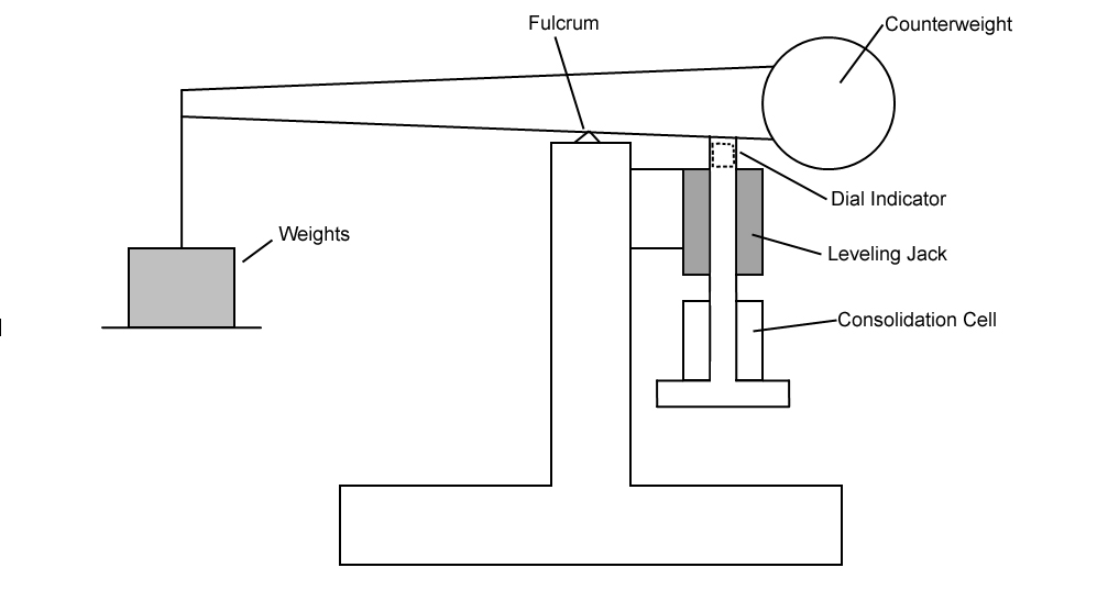 Oedometer test frame for consolidation experiments developed by Bishop.